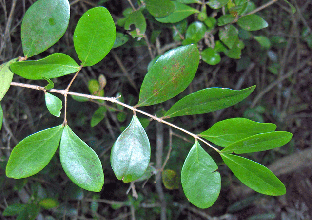 Leaves seen from above. Found in Everglades National Park